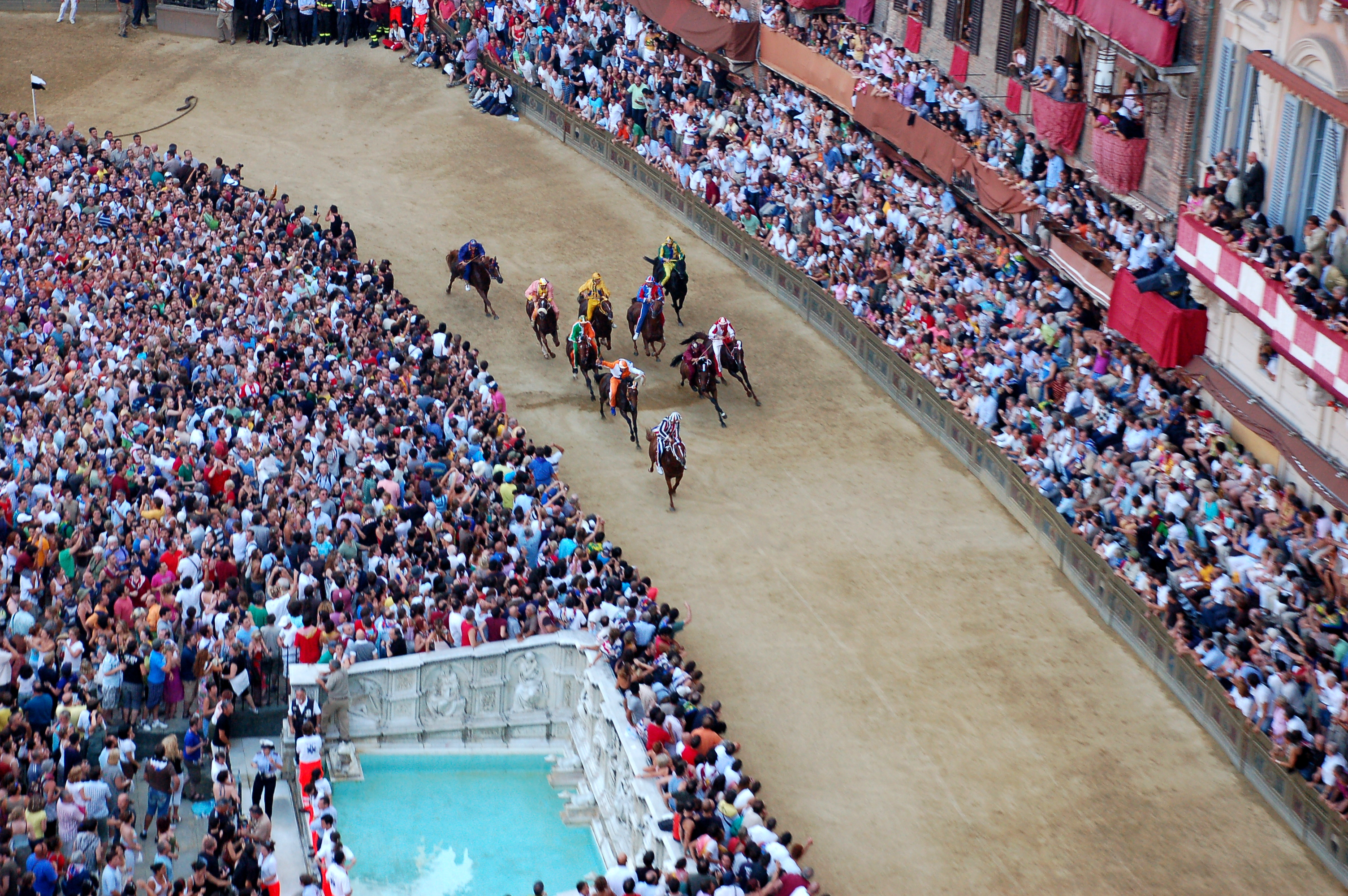 Il gruppo dei cavalli all'altezza di Fonte Gaia visto da Mirco Mugnai " This work is free and may be used by anyone for any purpose. If you wish to use this content, you do not need to request permission as long as you follow any licensing requirements mentioned on this page.